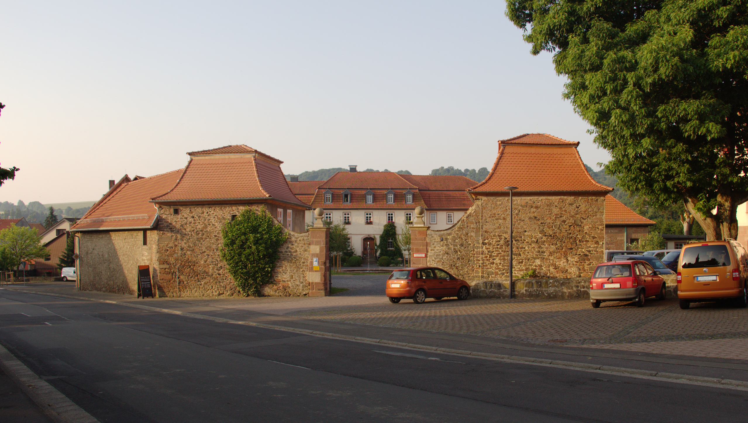 Castle gate in Stockhausen, Herbstein, Hessen, Germany